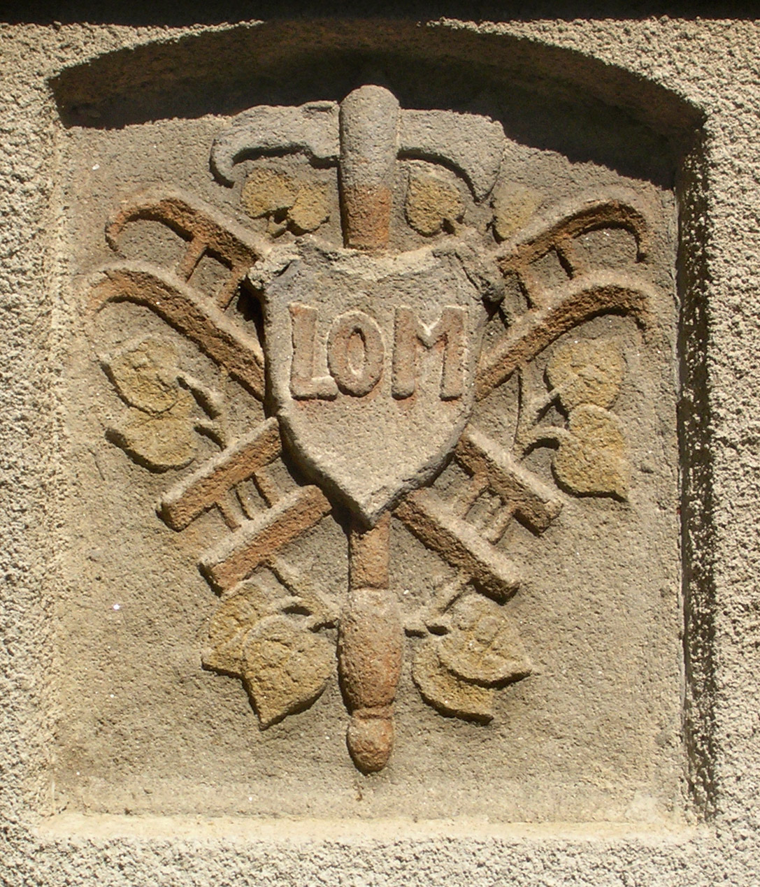 Coat of arms of Lom village, Czech Republic